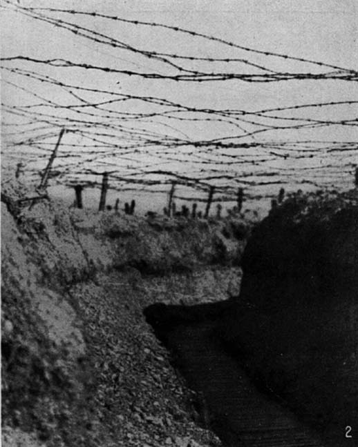 World War I in Reims-Verdon sector, France. Original caption: “A first line communication trench above St. Thomas. The French have barbed-wire stretched overhead to prevent entrance here by the enemy”